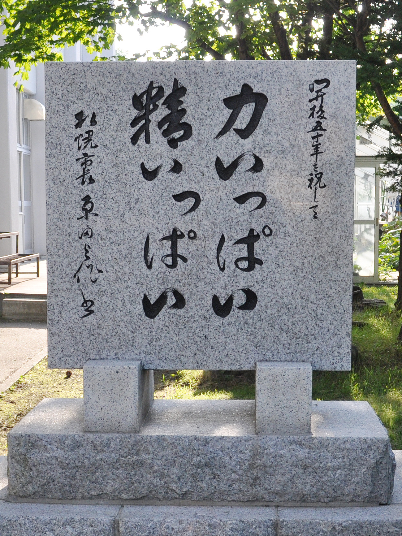 Monument of 50th anniversary of Naebo Elementary School in Higashi-ku, Sapporo, Hokkaido, Japan.